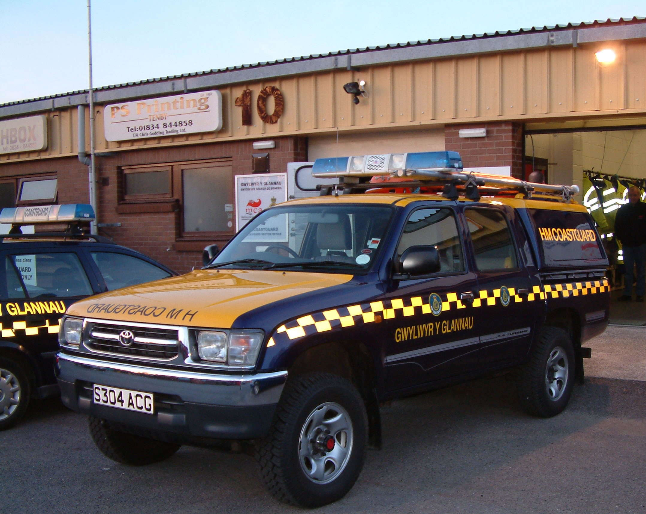 Her Majesty's Coastguard land vehicles (Toyota Hi-Lux)